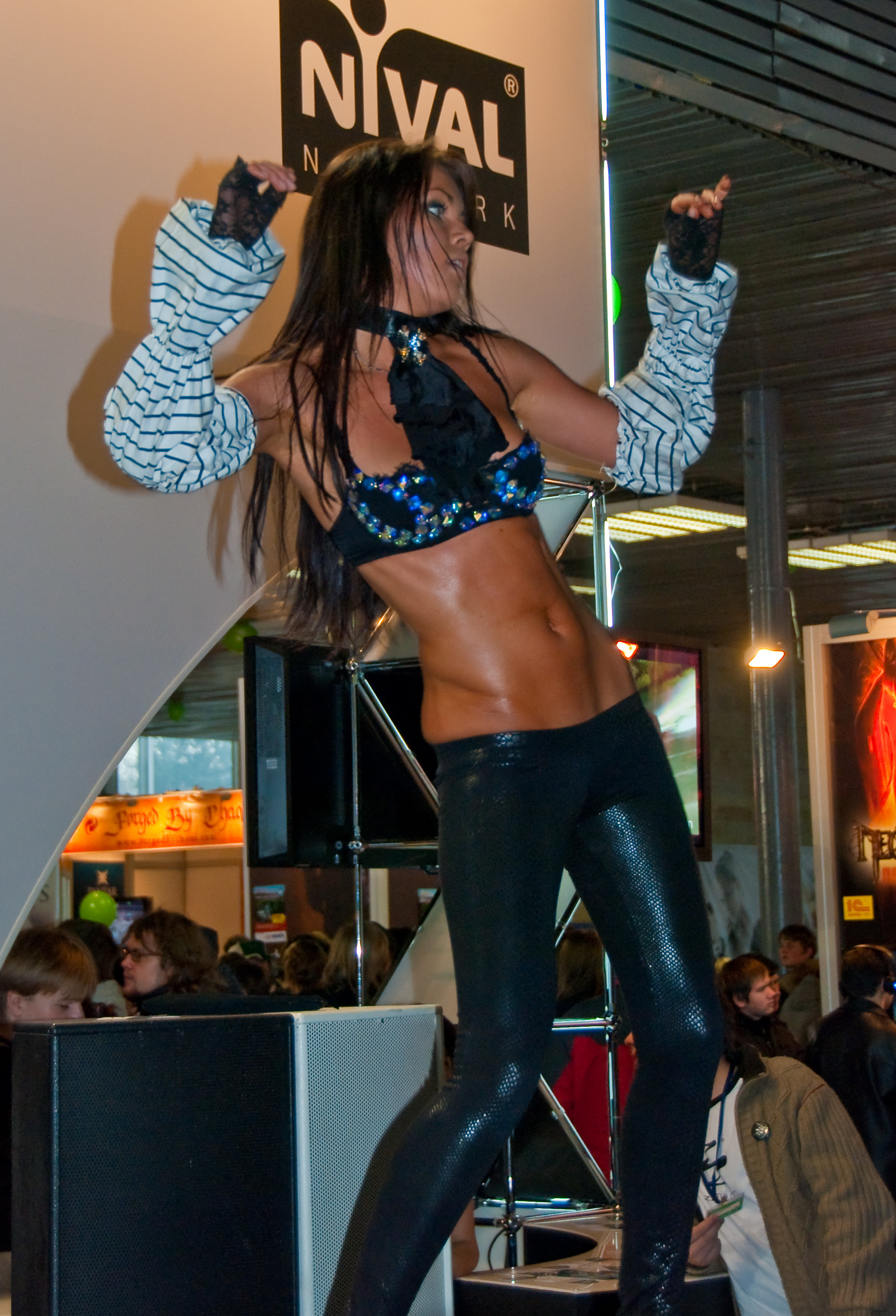 Astrum Nival girl at Igromir 2009